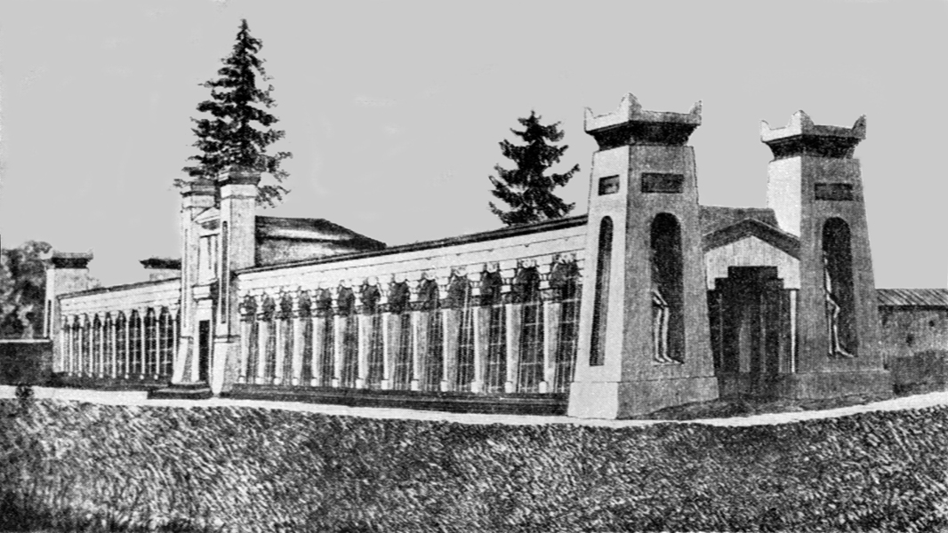 Hothouse in Końskie, Poland, build 1825-30, image 1876